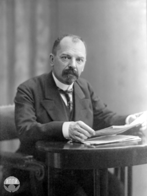 Vladimir Sergeevich Gulevich (1867-1933) was a Russian and Soviet biochemist who first isolated Carnitine from Mammalian muscle.